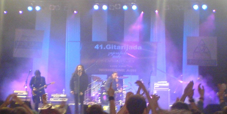 This is a photo of the band Divlje jagode performing live in 2007